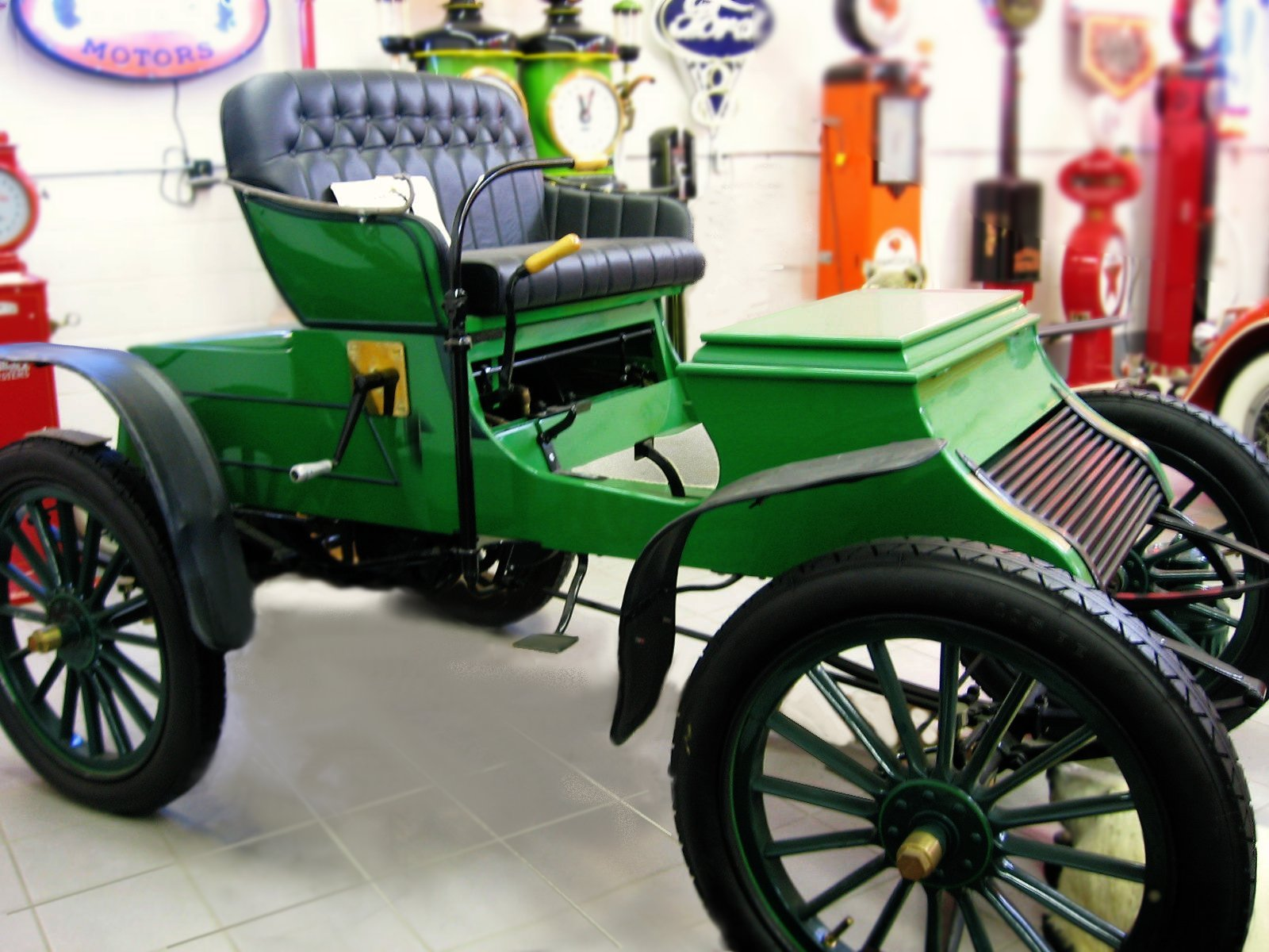 Photo of 1902 Smith from private collection. Supposedly the only one of its type known still to exist.